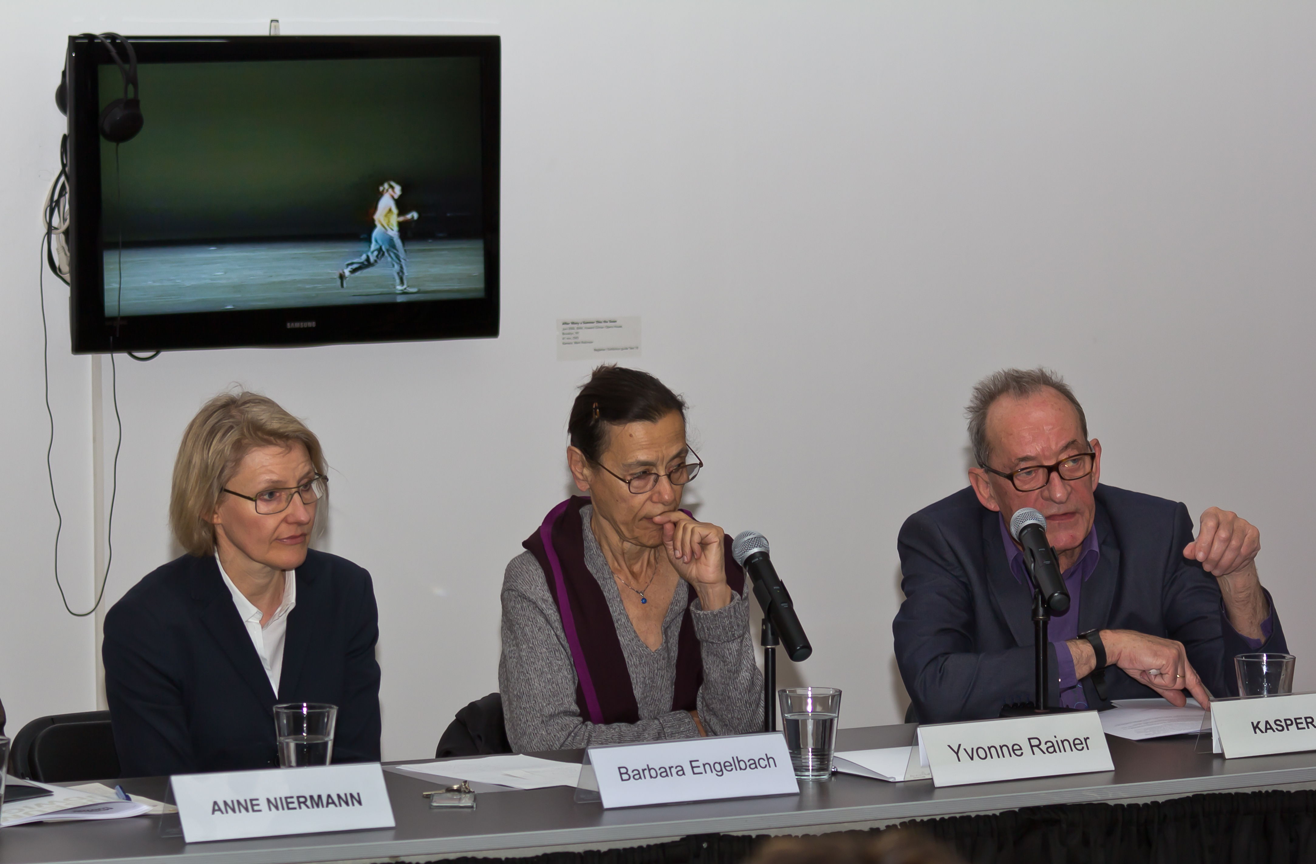 Press conference in the Museum Ludwig, Cologne, Germany. Opening of the exhibition Yvonne Rainer – Raum, Körper, Sprache Photo: Barbara Engelbach (curator), Yvonne Rainer, Kasper König (director of Museum Ludwig)